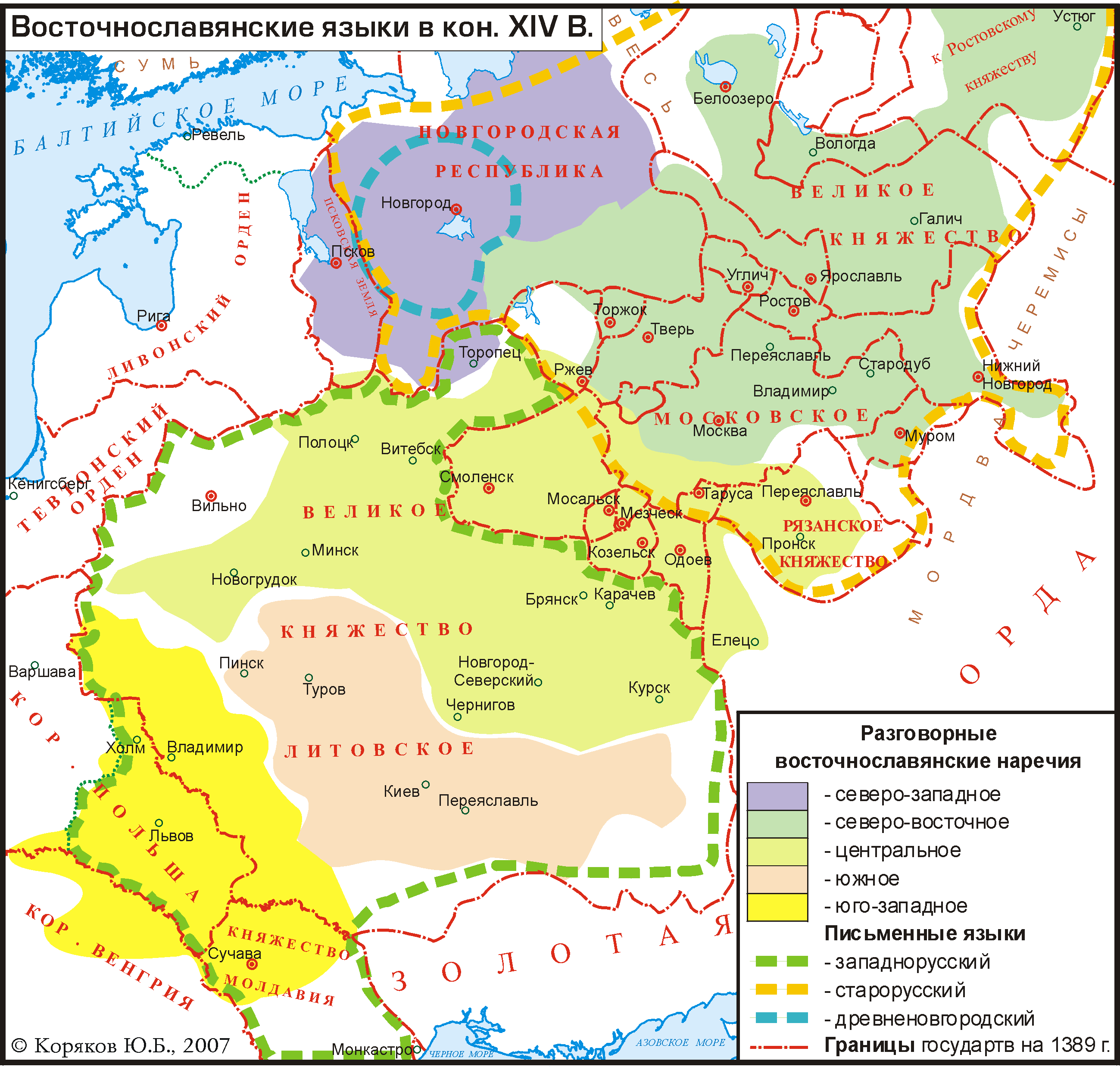 Approximate map of the language situation in Russian lands n 1389.